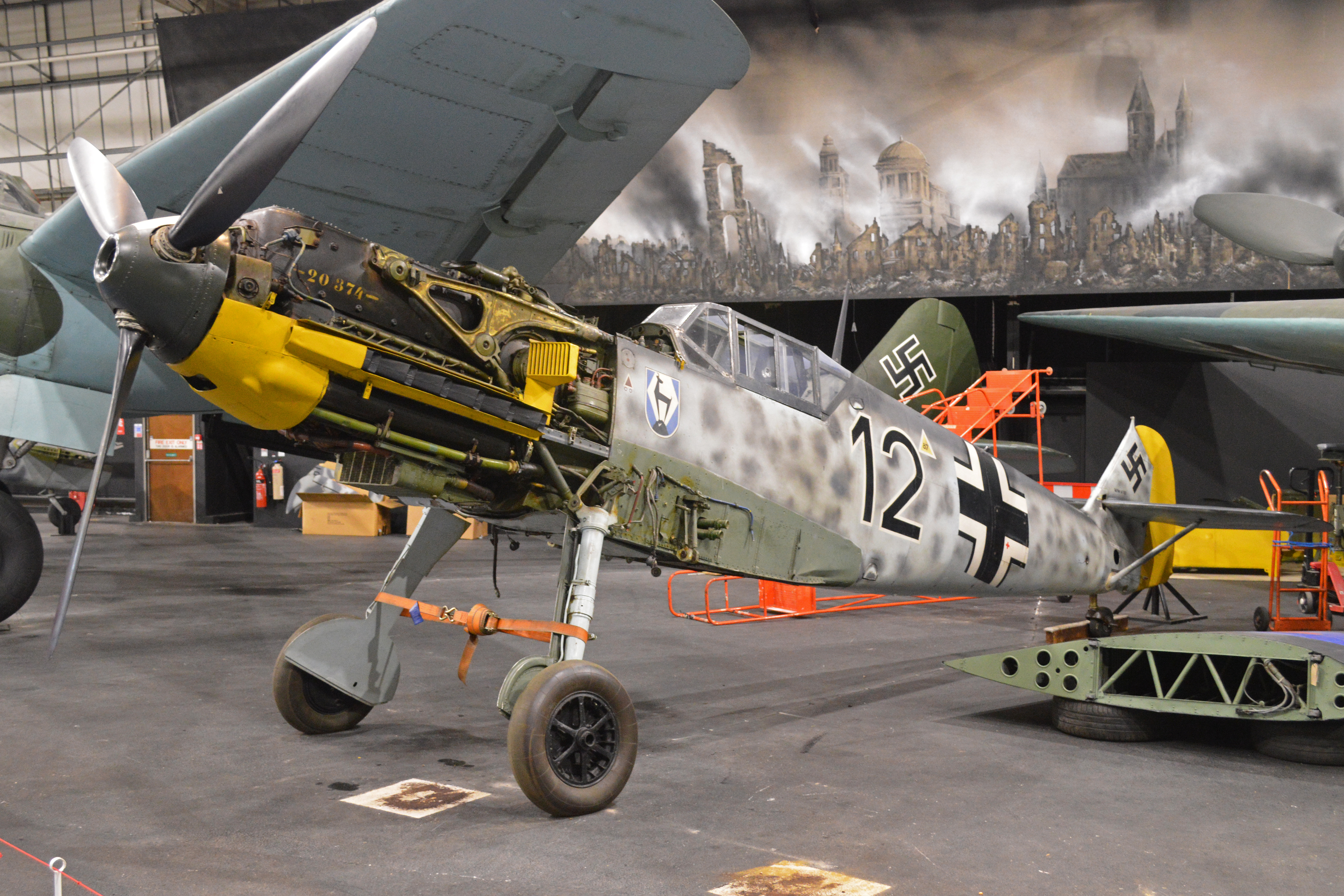 The RAF Museum chose to celebrate the 100th Anniversary of the service by dismantling and closing the museum dedicated to its finest hour, the Battle of Britain Museum. Every cloud has a silver lining, however, and during May 2016 the aircraft were in a part dismantled state, allowing for some interesting photos. Delivered in September 1940 and operated with 2/JG51 based at Wissant near Calais. Flew as ‘Black 12’, the markings it wears today. Shot down on 27th November 1940 by a 66sqn Spitfire and forced landed next to the flight office on RAF Manston Airfield, with very little damage sustained. The aircraft was moved to RAF Hucknall for repair in December 1940 and on 25th February 1941 it flew again, now in RAF camouflage and markings, with the serial ‘DG200’. The rebuilt included parts of other shot down Bf109s, including '1418' and '6313'. In March 1942 it joined 1426 Enemy Aircraft Flight, based Duxford, the unit moving to RAF Collyweston in April 1943. By September 1943 newer aircraft were available and ‘DG200’ was stored along with Fiat CR42 ‘BT474’ for future museum use. Stored at various locations including RAF Biggin Hill. It also appeared statically at various exhibitions and displays. Restored as Black 12 at St Athan in 1970, it finally went on permanent display in 1978 when the Battle of Britain Hall opened and remained there until 2016. RAF Museum, Hendon, London, UK. 28th May 2016